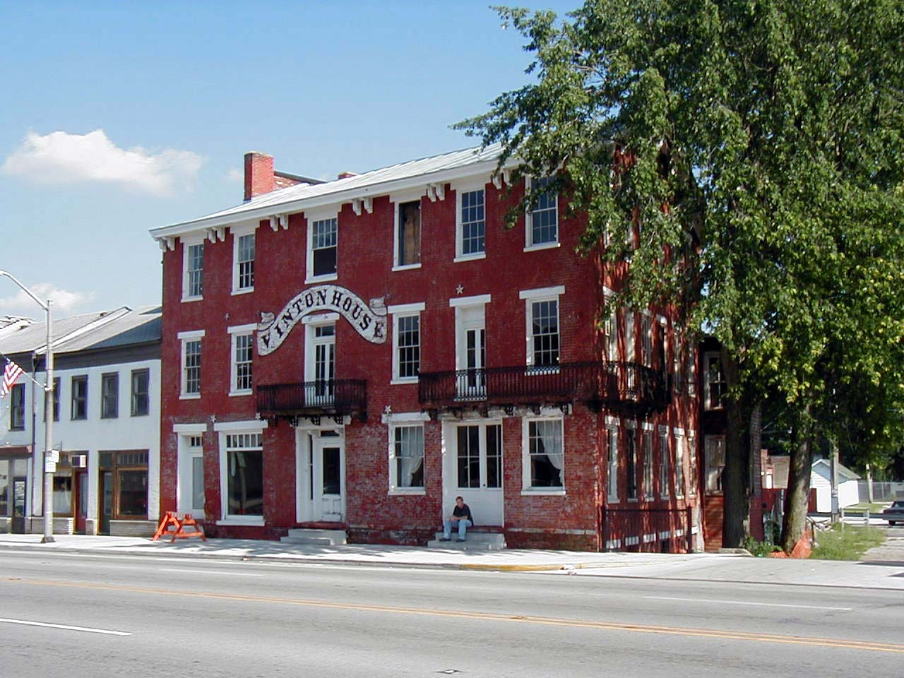 Vinton House in Cambridge City, Indiana. An old inn, this building's unique architecture is due to its relationship to the canal that once went through Cambridge City. The right side of the building where the trees now grow is where the canal was. The canal no longer exists, but the interpretation of the building's architecture may tell the story of that once prosperous canal that helped the sustain the life of Cambridge City.